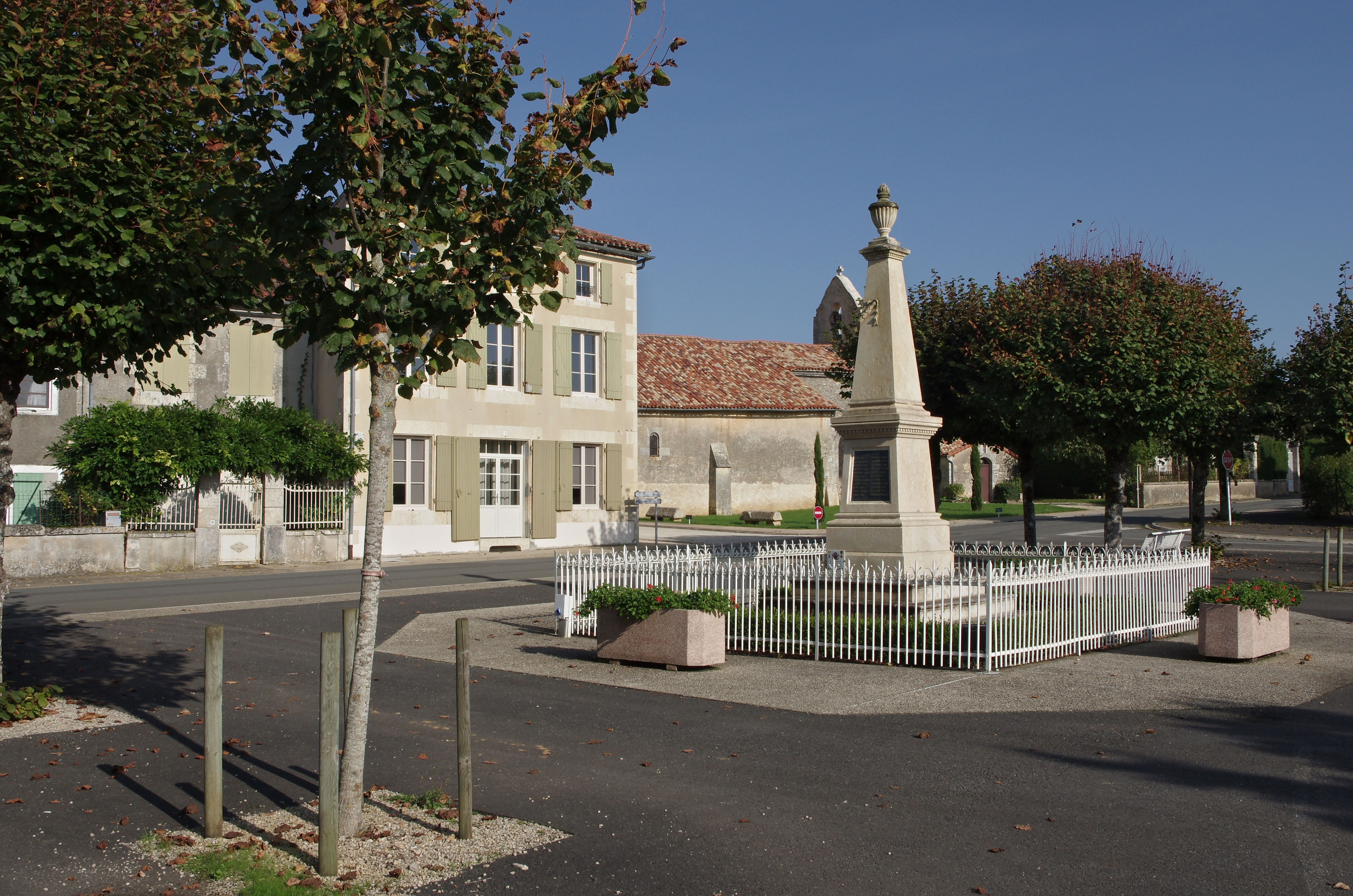 War memorial on the place des tilleuls, Champniers, Vienne,France.